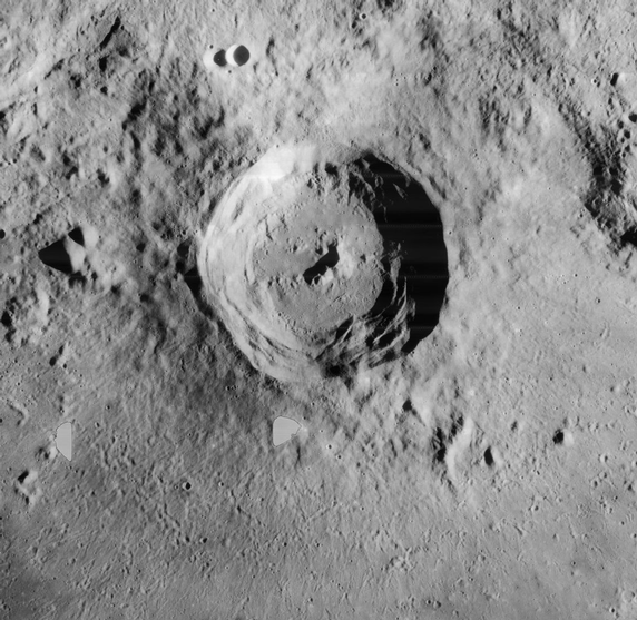 Image of lunar crater Maunder with surroundings, taken by Lunar Orbiter 4. The preview image 4195_h2.jpg was reduced in size to 67% of normal, then cropped to focus on the crater.